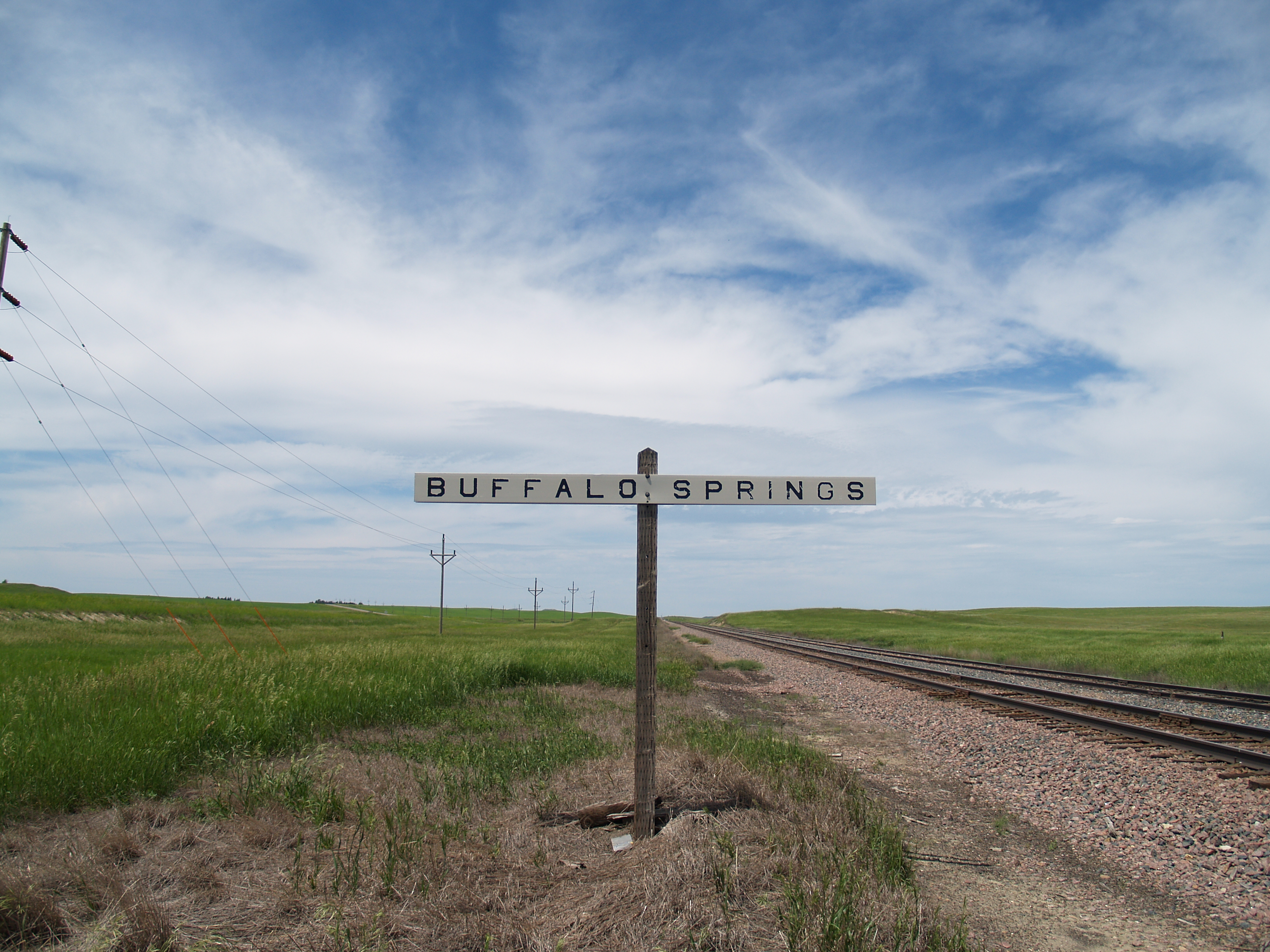 Buffalo Springs, North Dakota. From .